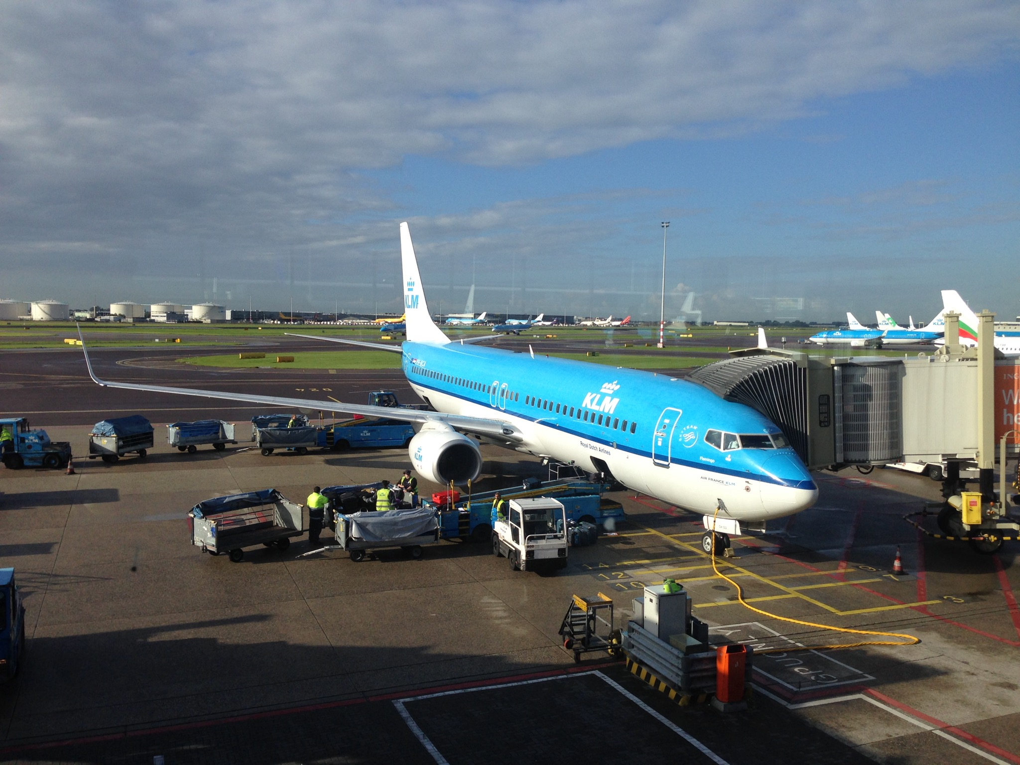 Amsterdam Airport Schiphol